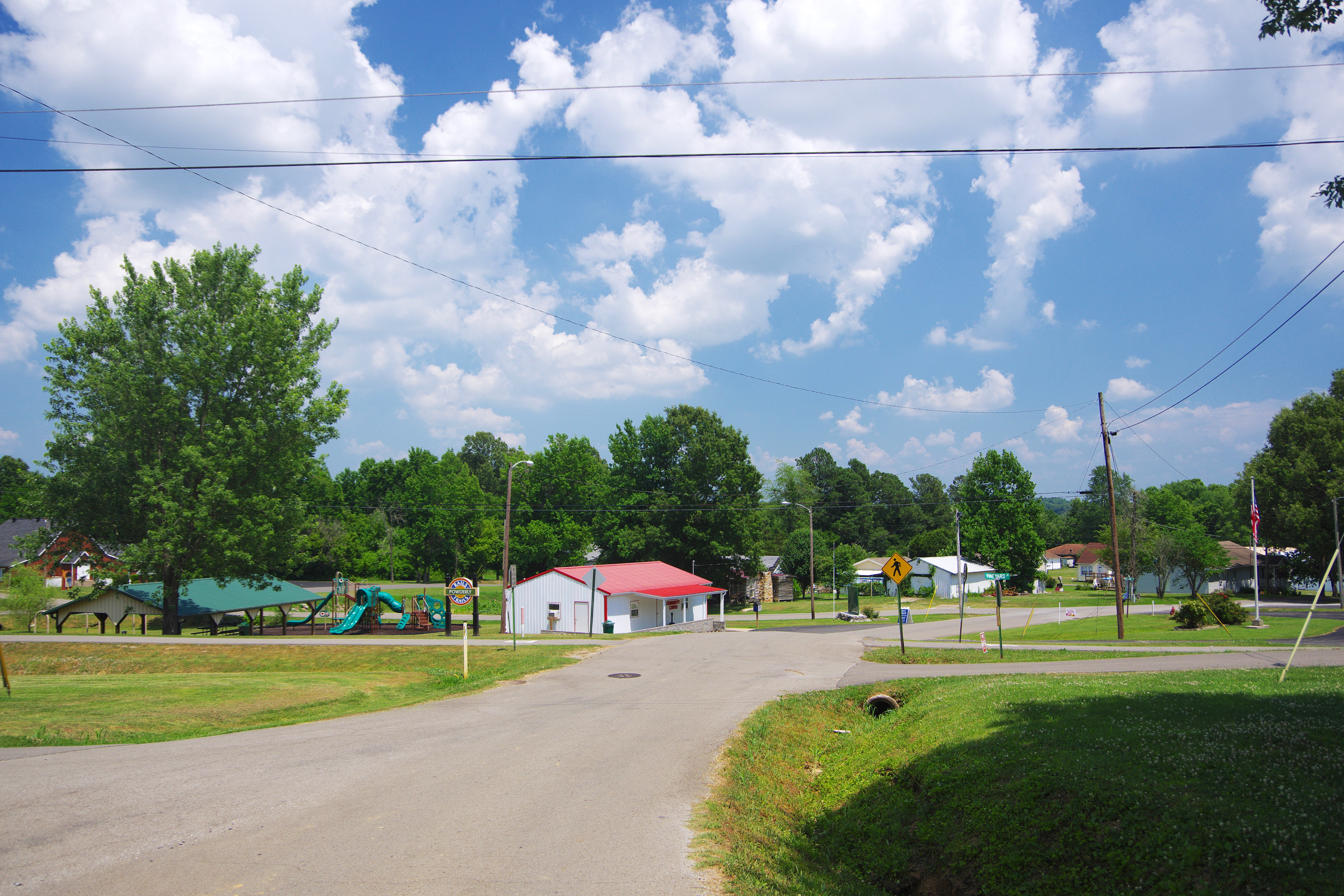 View along Willis Drive in Powderly, Kentucky, United States, with the park and community center on the left.